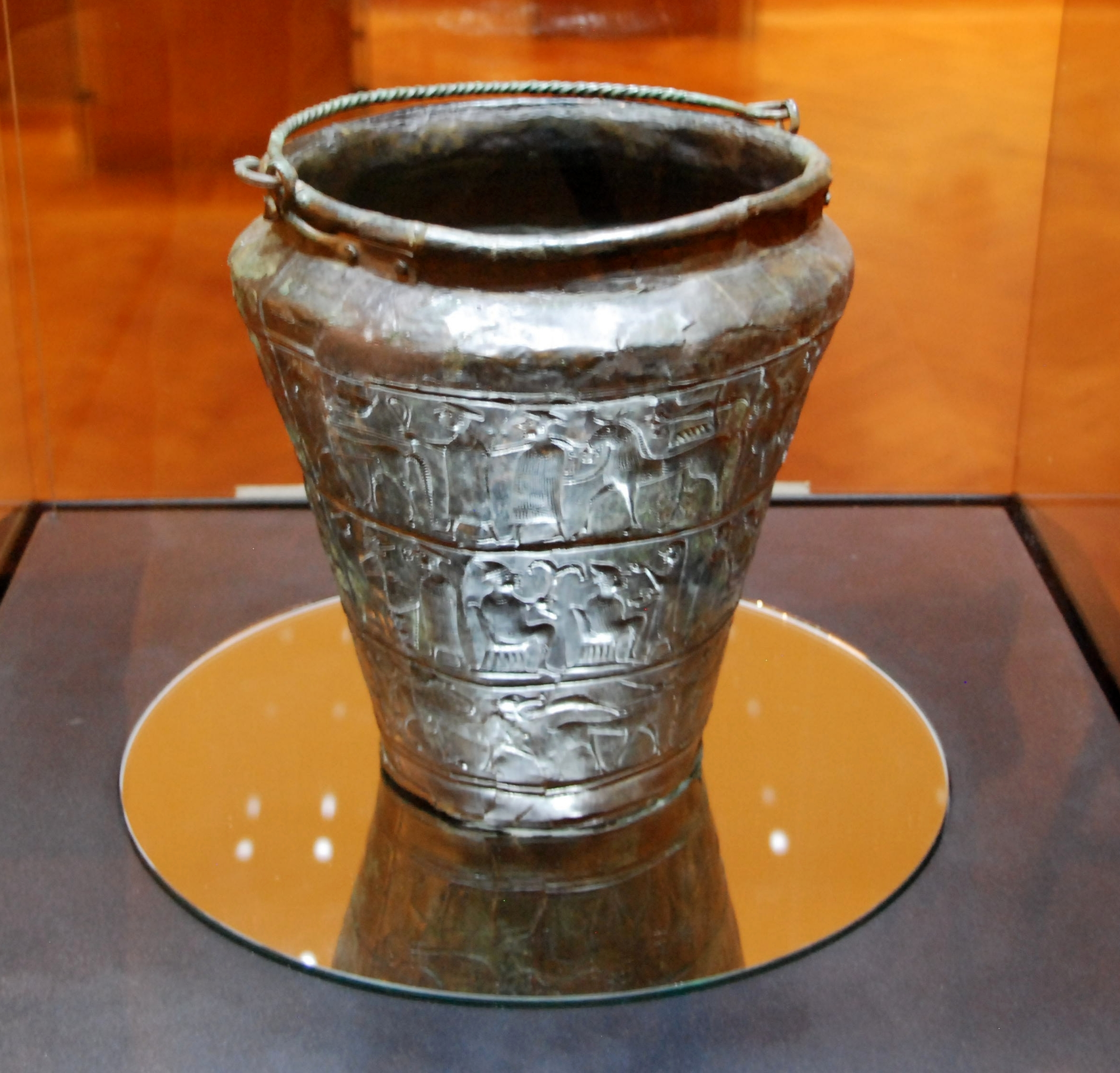 Vače Situla (the original). Photographed in the National Museum of Slovenia.